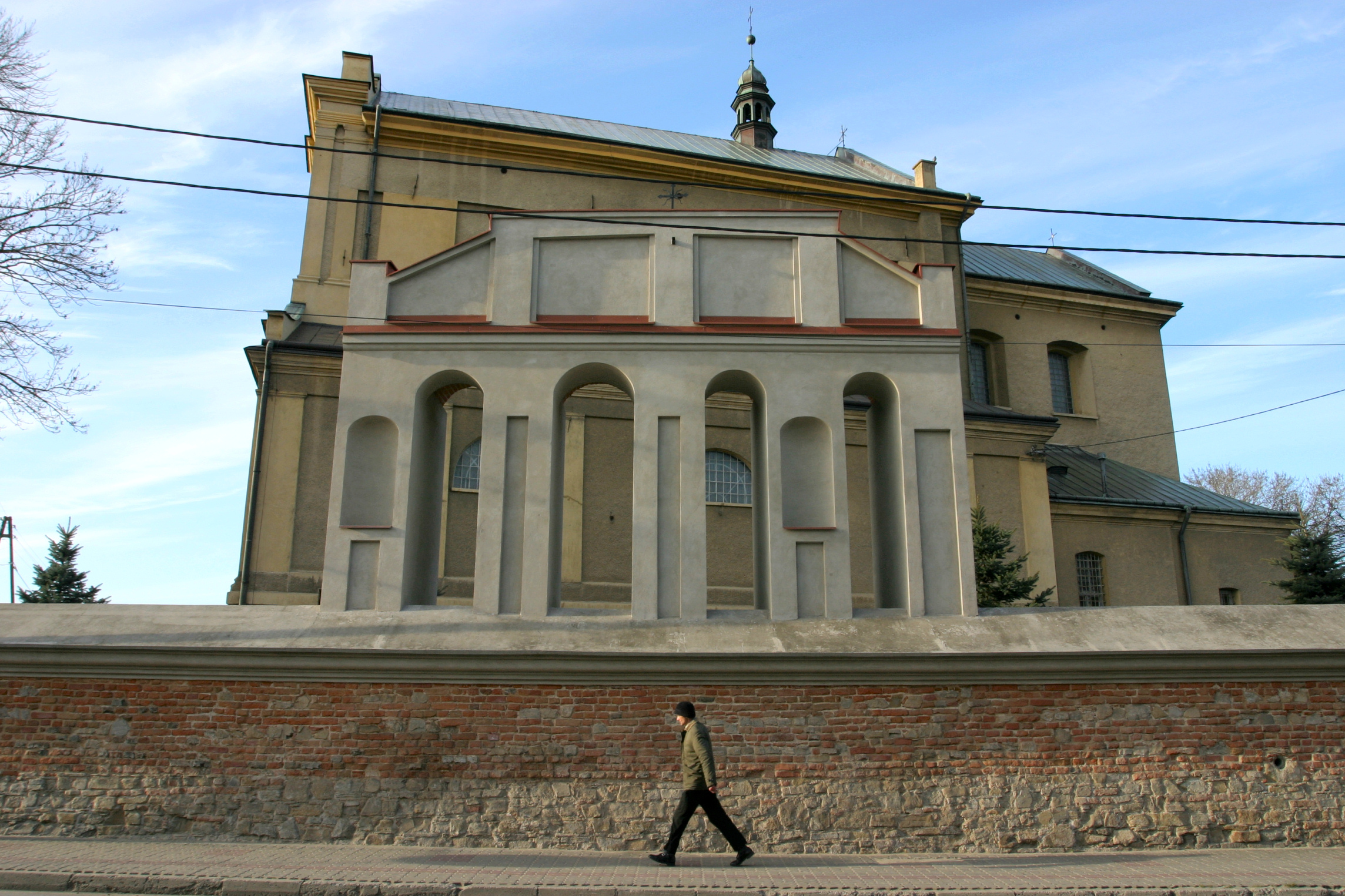 Old bell tower (from 1823) of the Birth of the Most Holy Virgin Mary's Church in Sędziszów Małopolski, Poland.